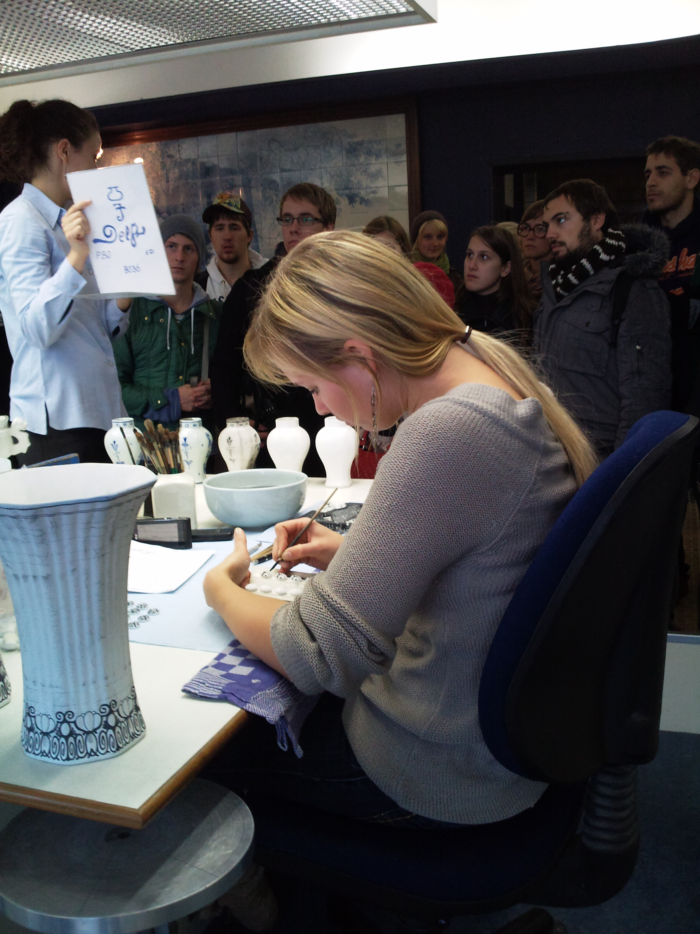 Lady is painting Delfts Blue Porcelain, lady at the background shows the mark of Porceleyne Fles Delft